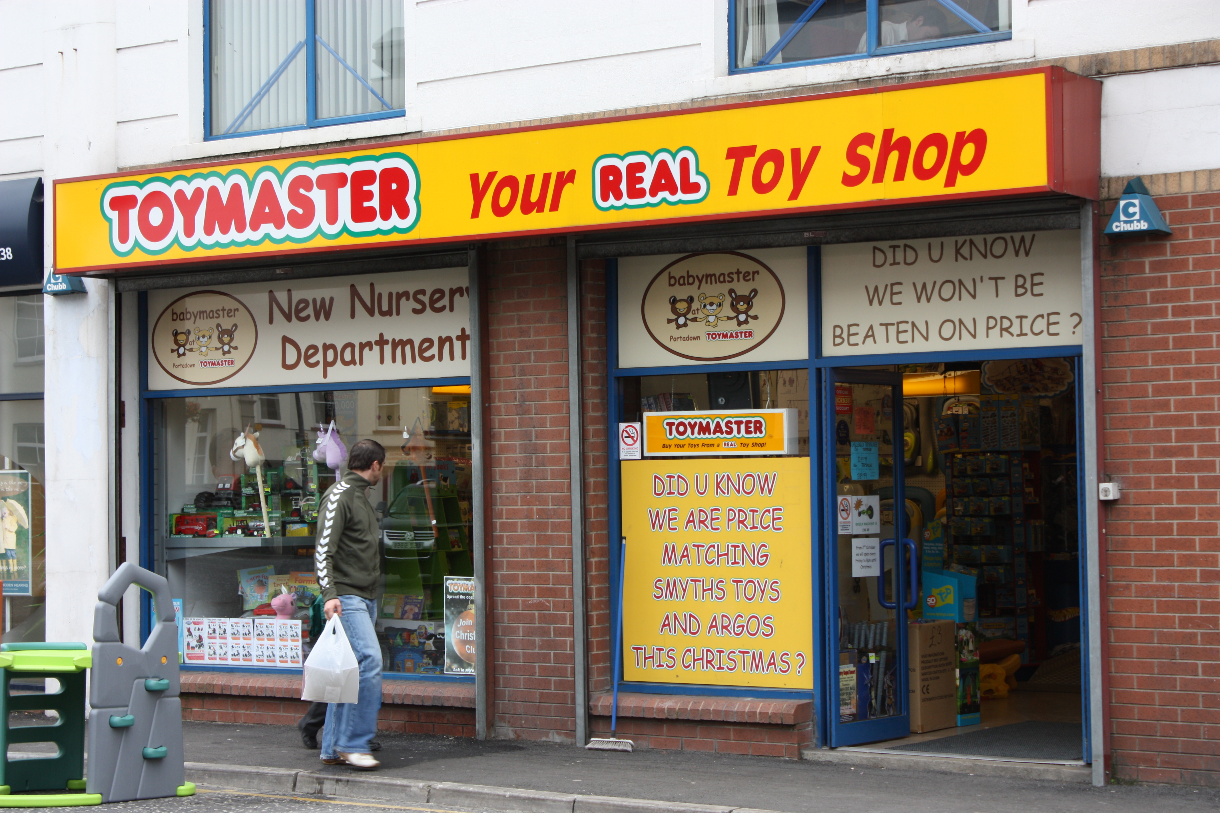 Toymaster, Mandeville Street, Portadown, County Armagh, Northern Ireland, September 2009